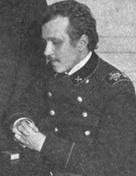 Photo of Sergey von Freymann